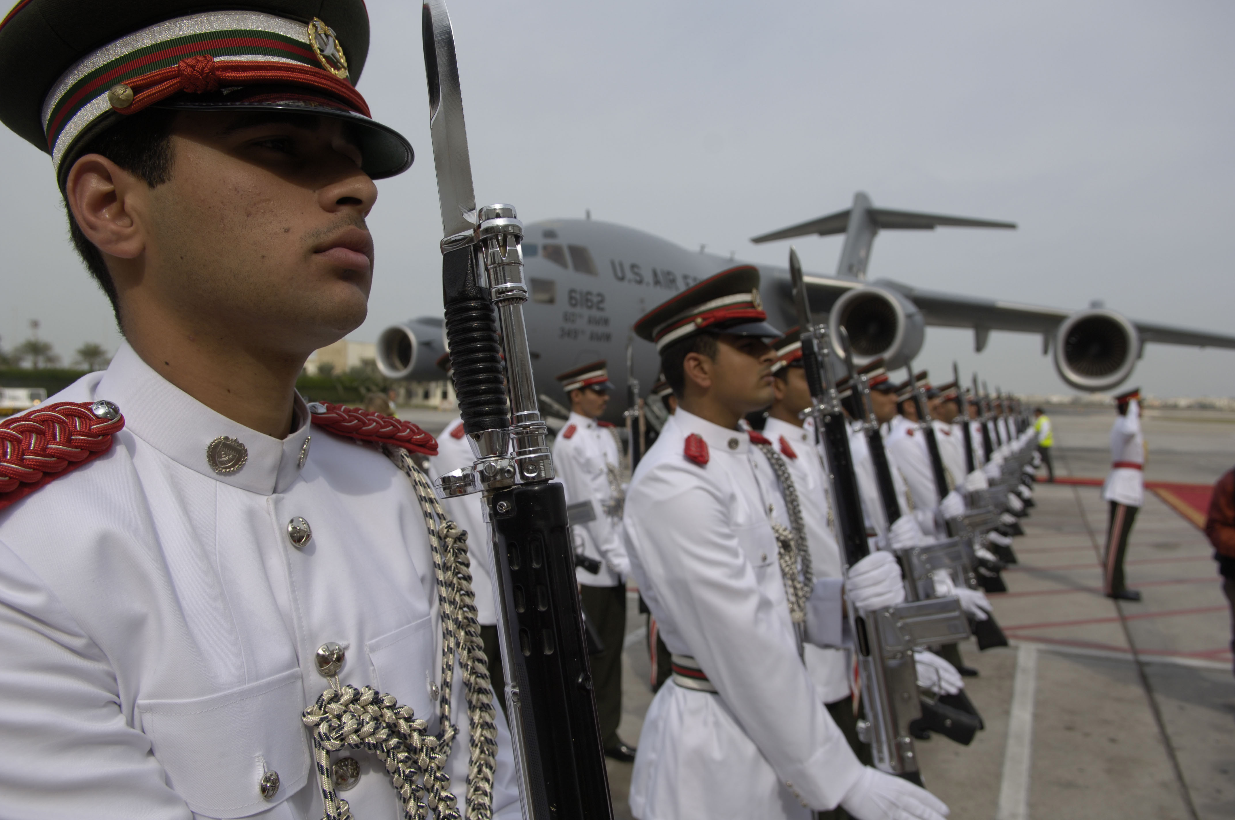 A Bahraini honor gurad stands at attention for the arrival of Secretary of Defense Robert M. Gates in Manama City, Bahrain, December 6, 2007. VIRIN: 071206-F-6655M-679